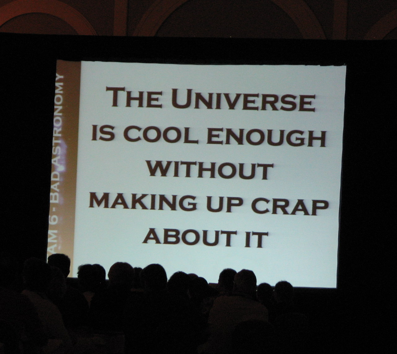 This is the final slide to Phil's presentation at the JREF's TAM6 The Amazing Meeting convention.